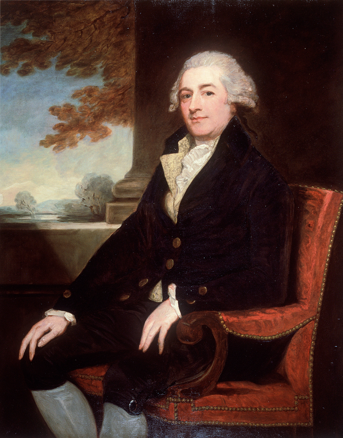 Edward Loveden Loveden (1749-1822), member of parliament and cheese merchant, by George Romeny - Llyfrgell Genedlaethol Cymru / The National Library of Wales